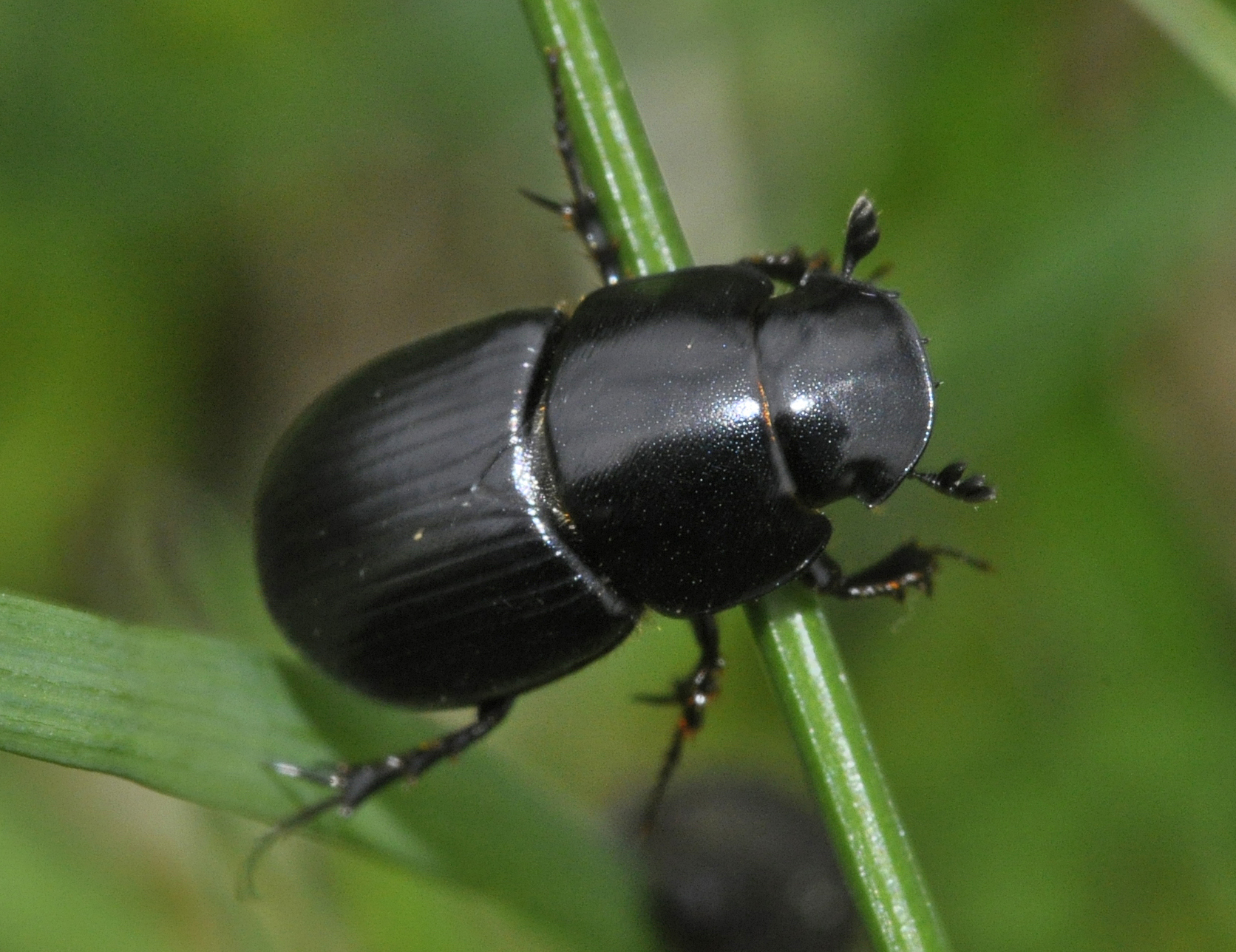 Acrossus depressus (Kugelann, 1792). Germany: Niedersachsen, Harz mountains, Sieber near Herzberg am Harz, 350 m.